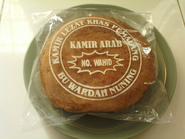 Khamir (or Kamir), cake baked of fermented dough of wheat or rice flour. Originally introduced by descendants of Arab Indonesians, in Indonesia the cake is recognized as the traditional cake of Pemalang, Central Java, Indonesia. Big Khamir cake.